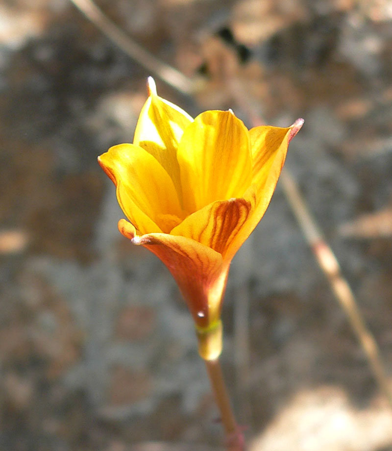 Habranthus tubispathus at the University of California Botanical Garden, Berkeley, California